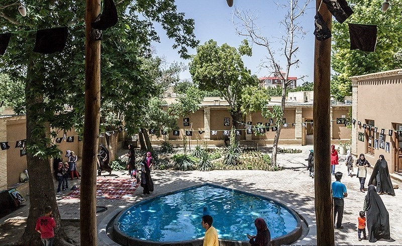 Ayatollah Ruhollah Khomeini's birthplace at Khomein